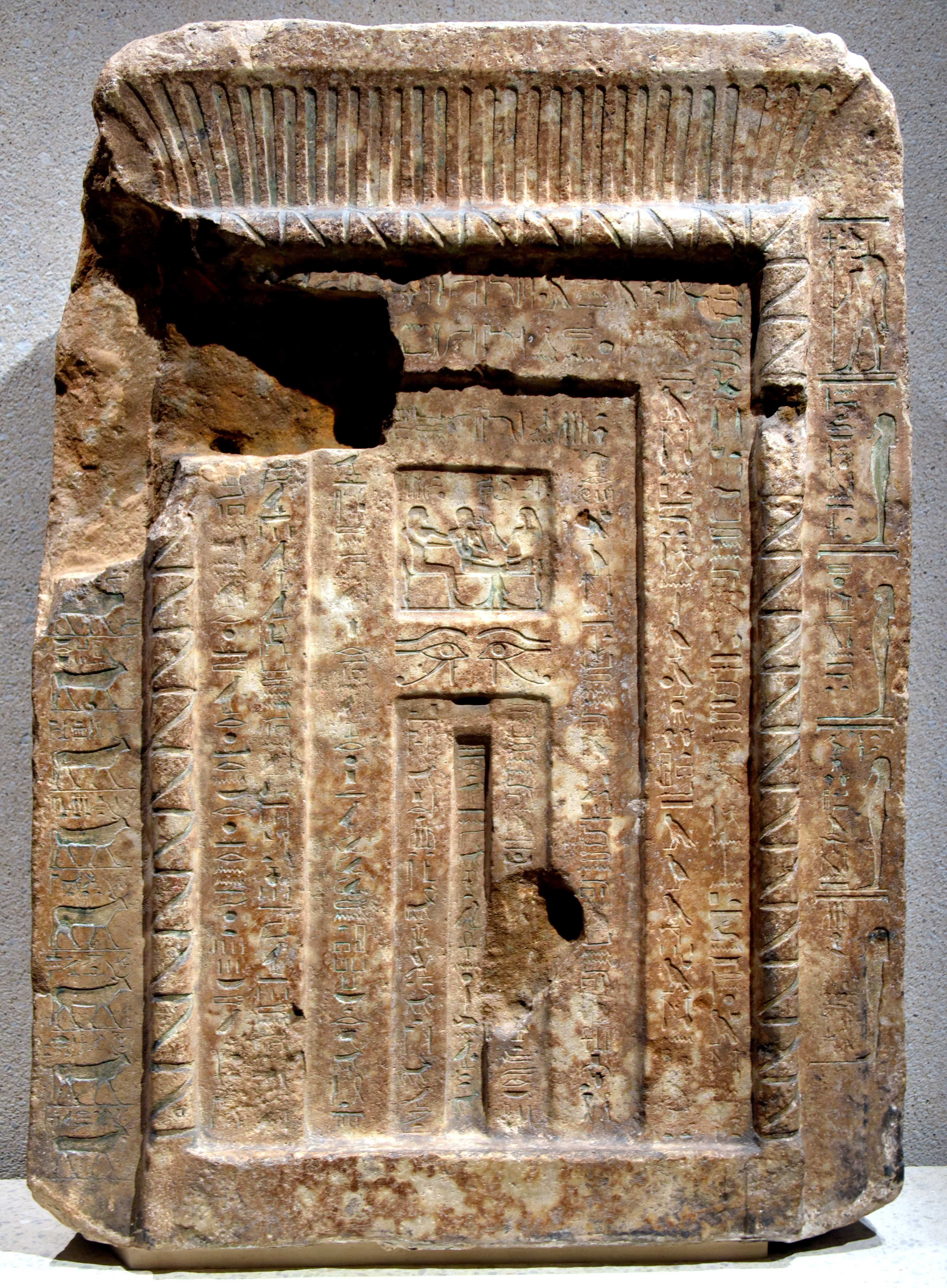 Sandstone false door of Senenmut, the steward of Queen Hatshepsut. New Kingdom, 18th Dynasty, 1480-1460 BCE. From Western Thebes, Egypt. Neues Museum, Berlin, Germany.